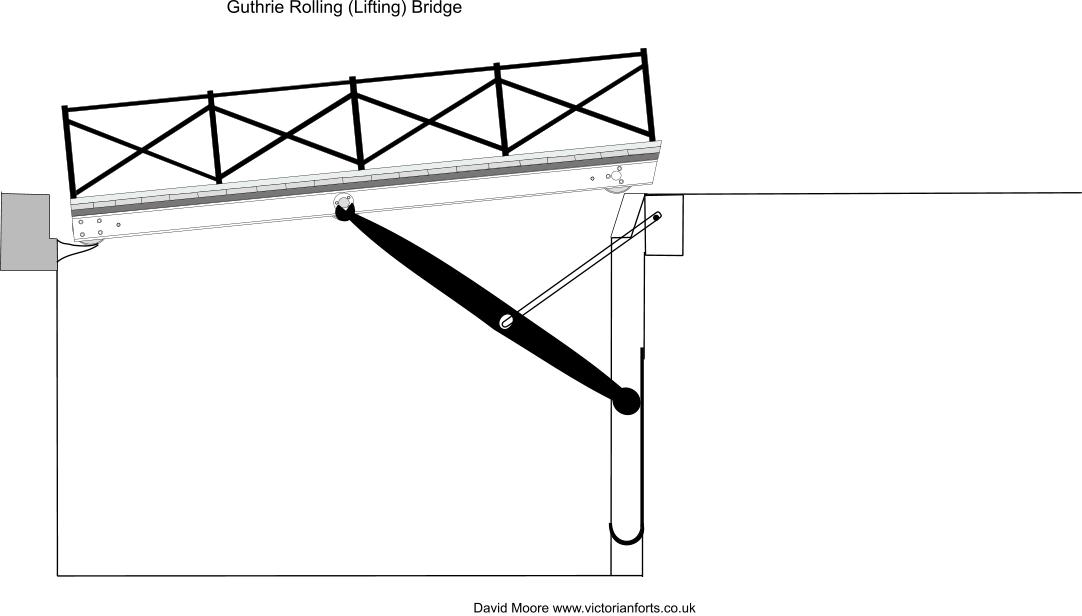 Commencemenbt of lifting procedure for Guthrie rolling bridge